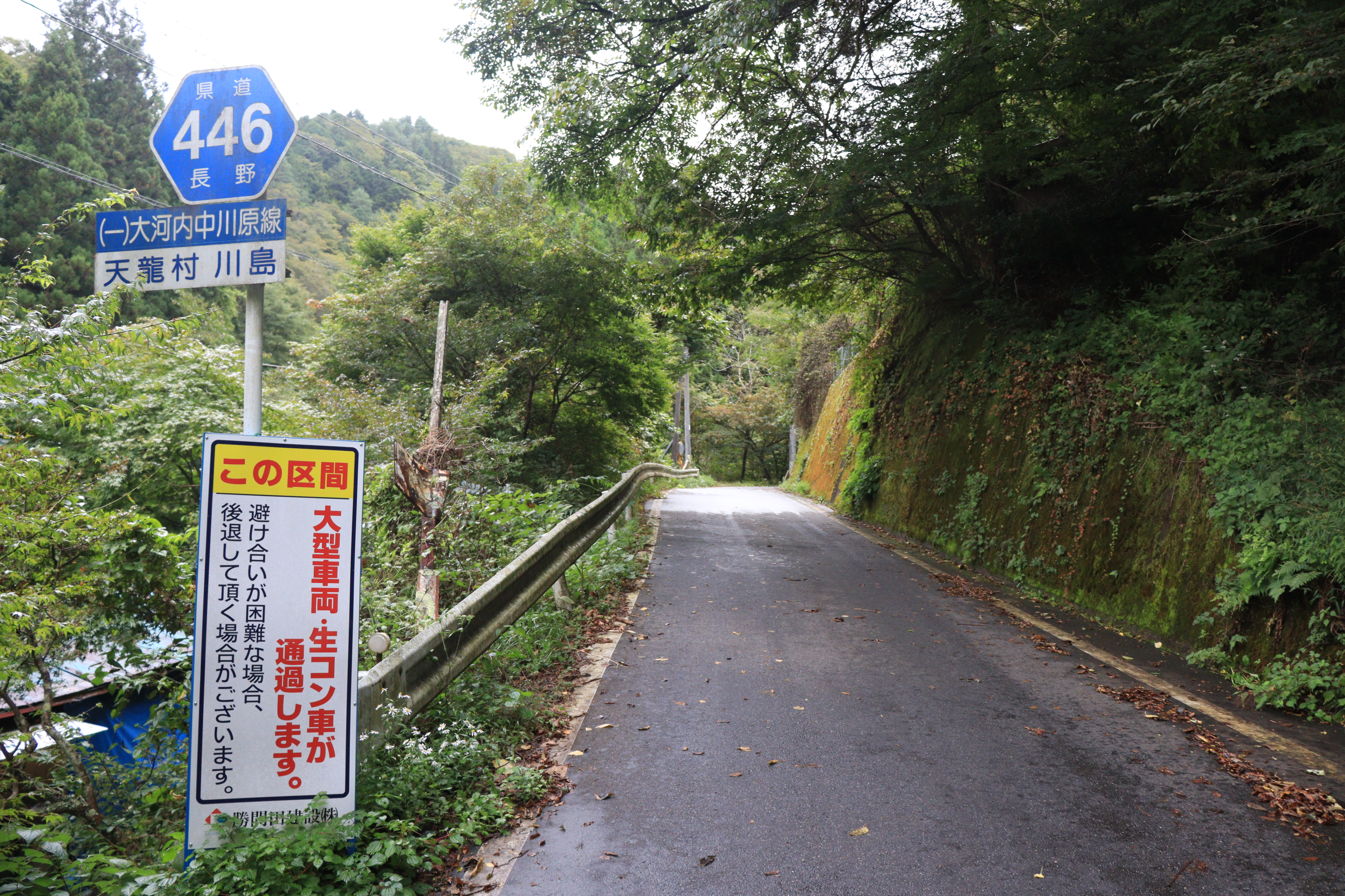 Nagano Prefectural Road Route 446 in Kamihara, Tenryu, Nagano Prefecture, Japan.